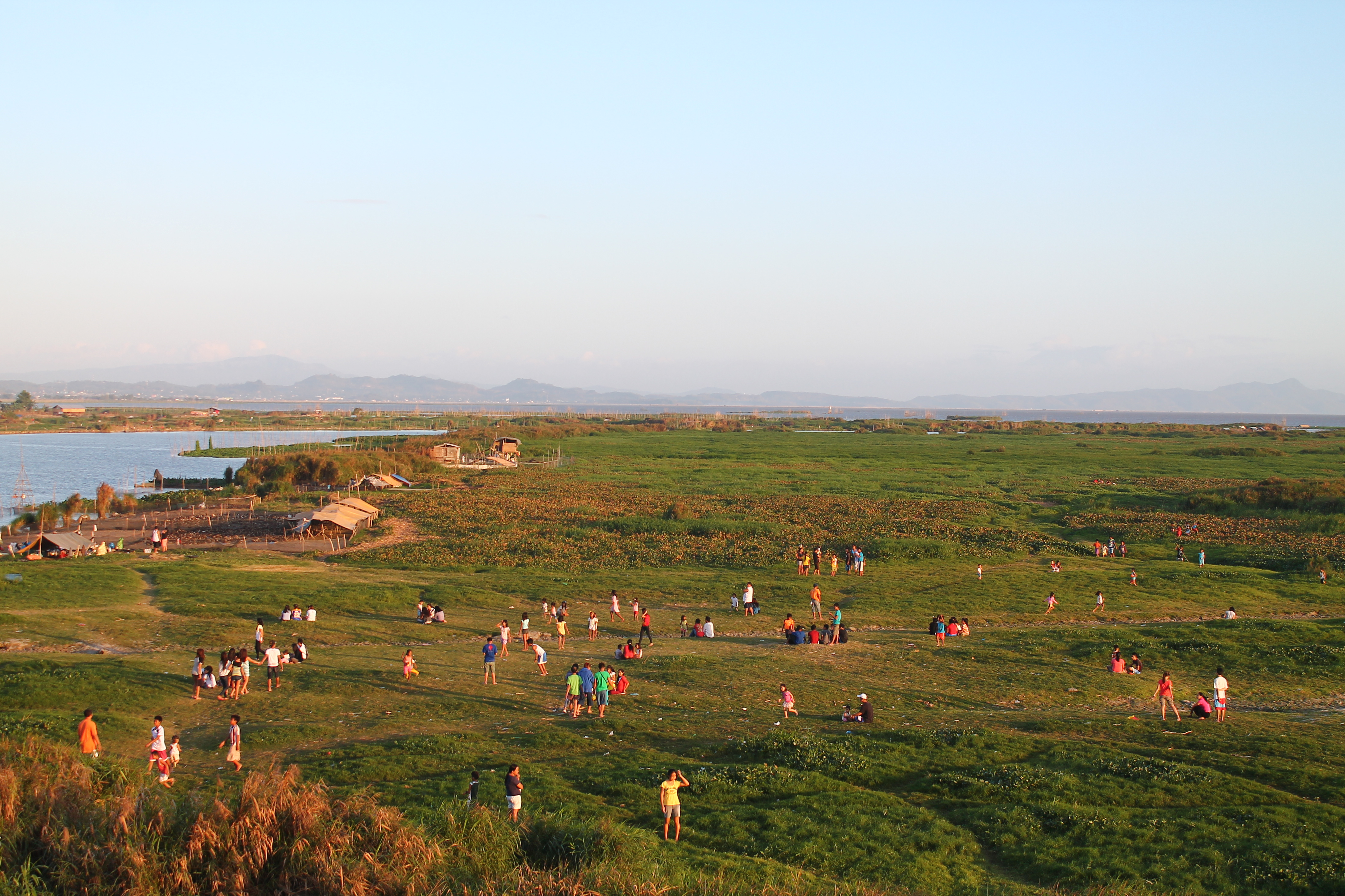 A nice place to fly kits. Near the Napindan Bridge, Taguig